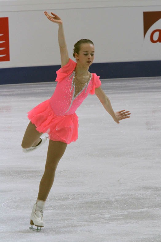 Gerli Liinamäe at the 2011 European Figure Skating Championships